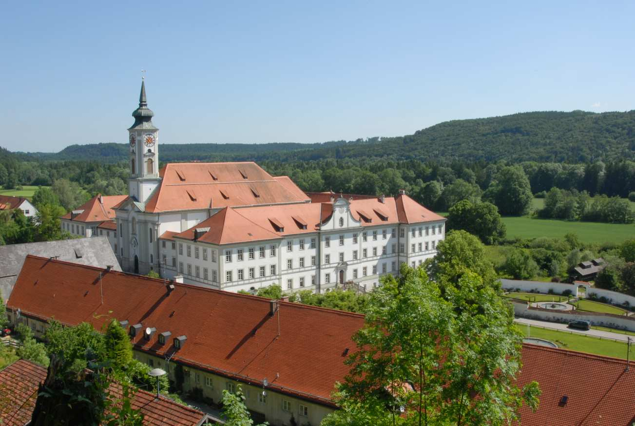 Kloster Schäftlarn, monastery, from South West